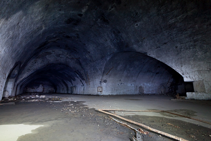 Gallery no.2 (mechanical workshop) and gallery no.3 (124.LAE) intersection